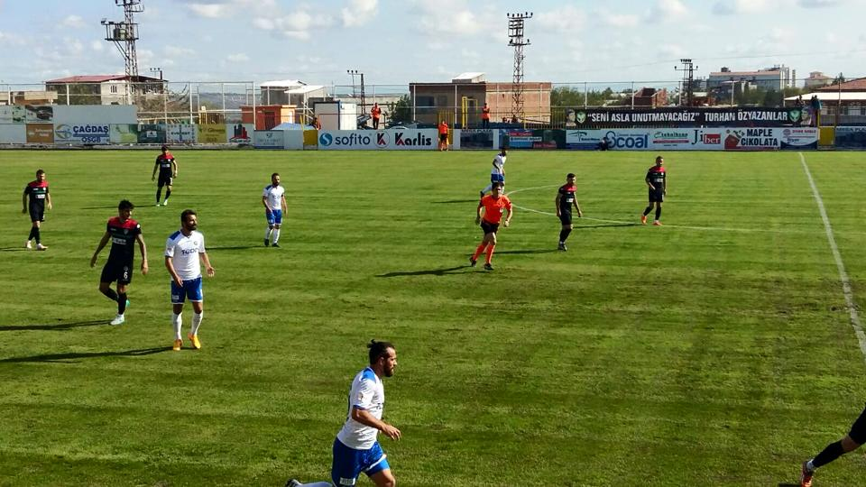 Turkish 2. Lig (2nd League) Amed SK 2-2 Ankara Demirspor match (2015-2016 season)